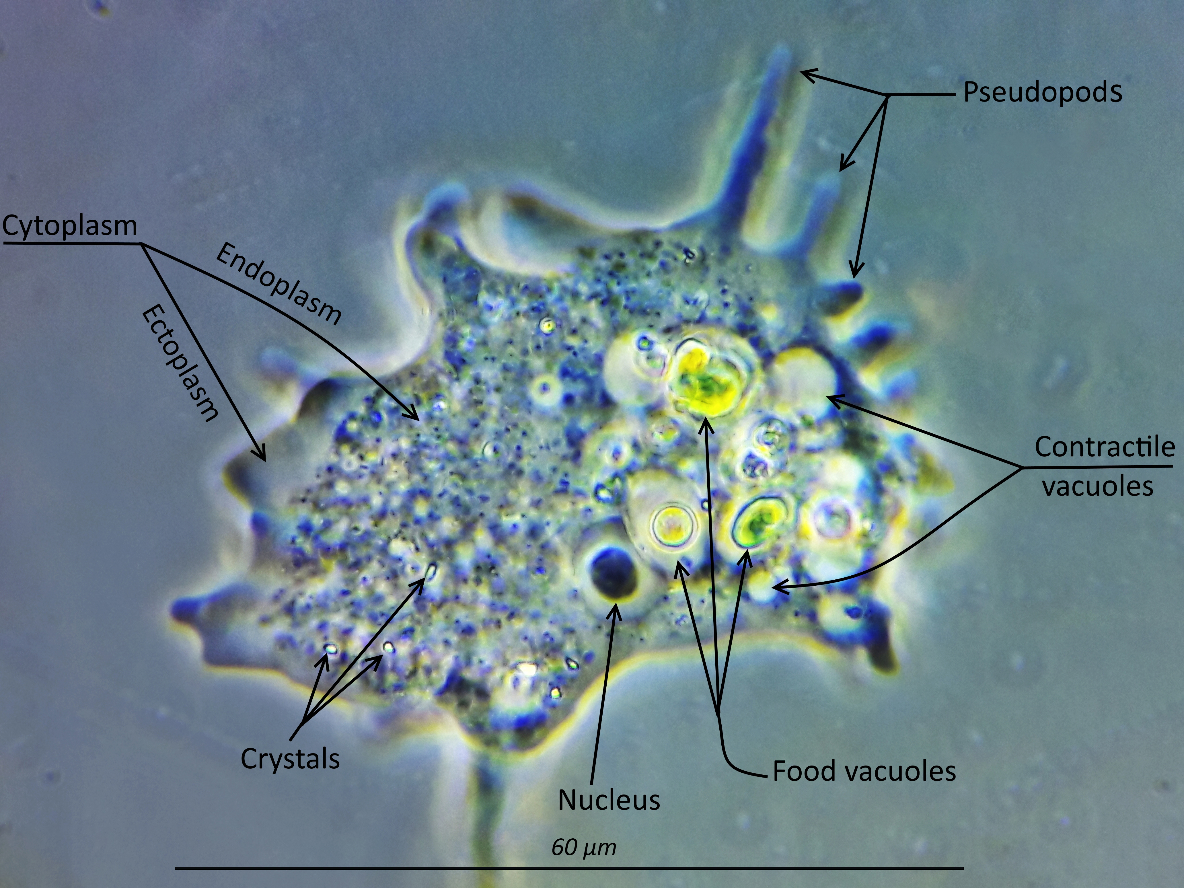 The structure of amoeba Mayorella sp. Phase contrast.